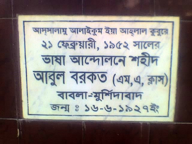 Epitaph on the grave of Abul Barkat, Language activist, killed during the Language Movement of 1952.